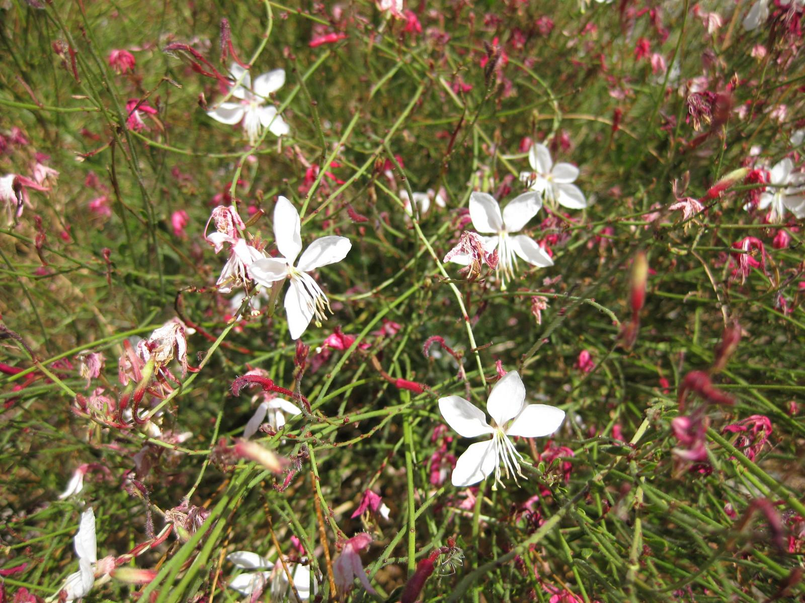 Photographed at Huntington Gardens (Los Angeles) in October